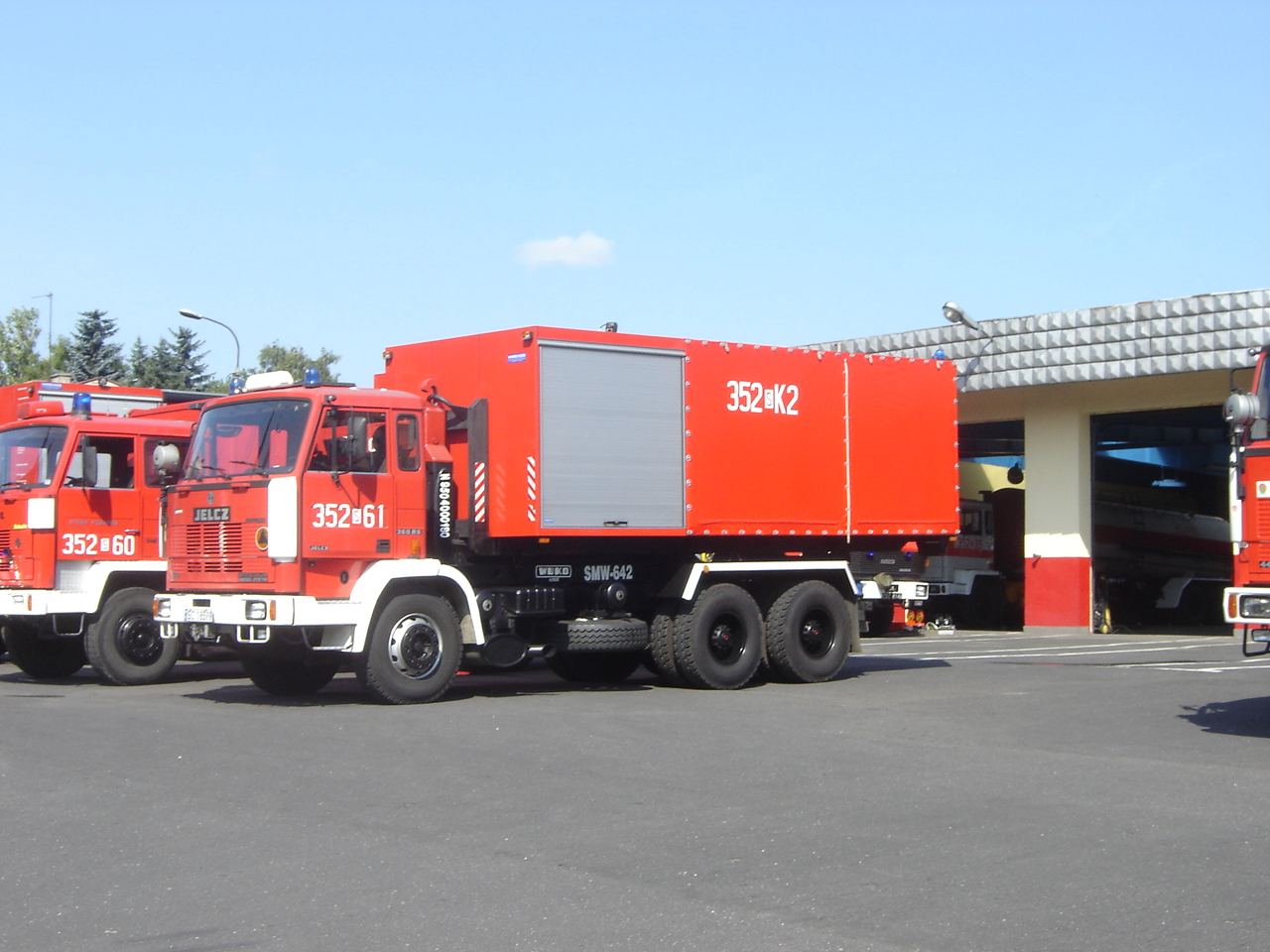 Polish fire engine Jelcz 642 SMW of Częstochowa Fire Brigade.